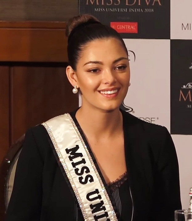 Miss Universe 2017, Demi-Leigh Nel-Peters at a press conference in India. (2018)